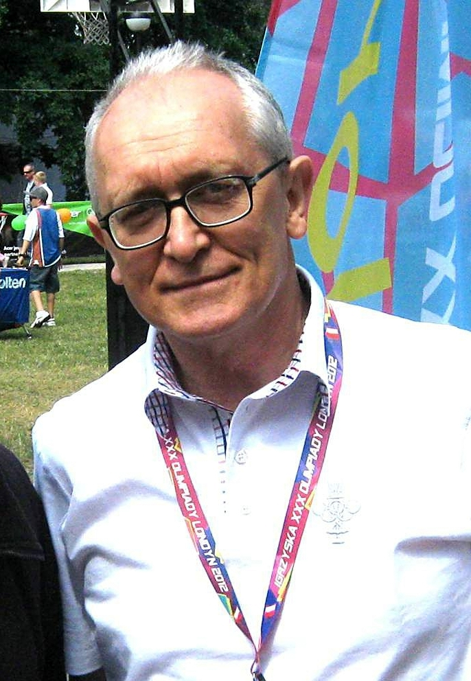 Jacek Bierkowski, fencer from Poland